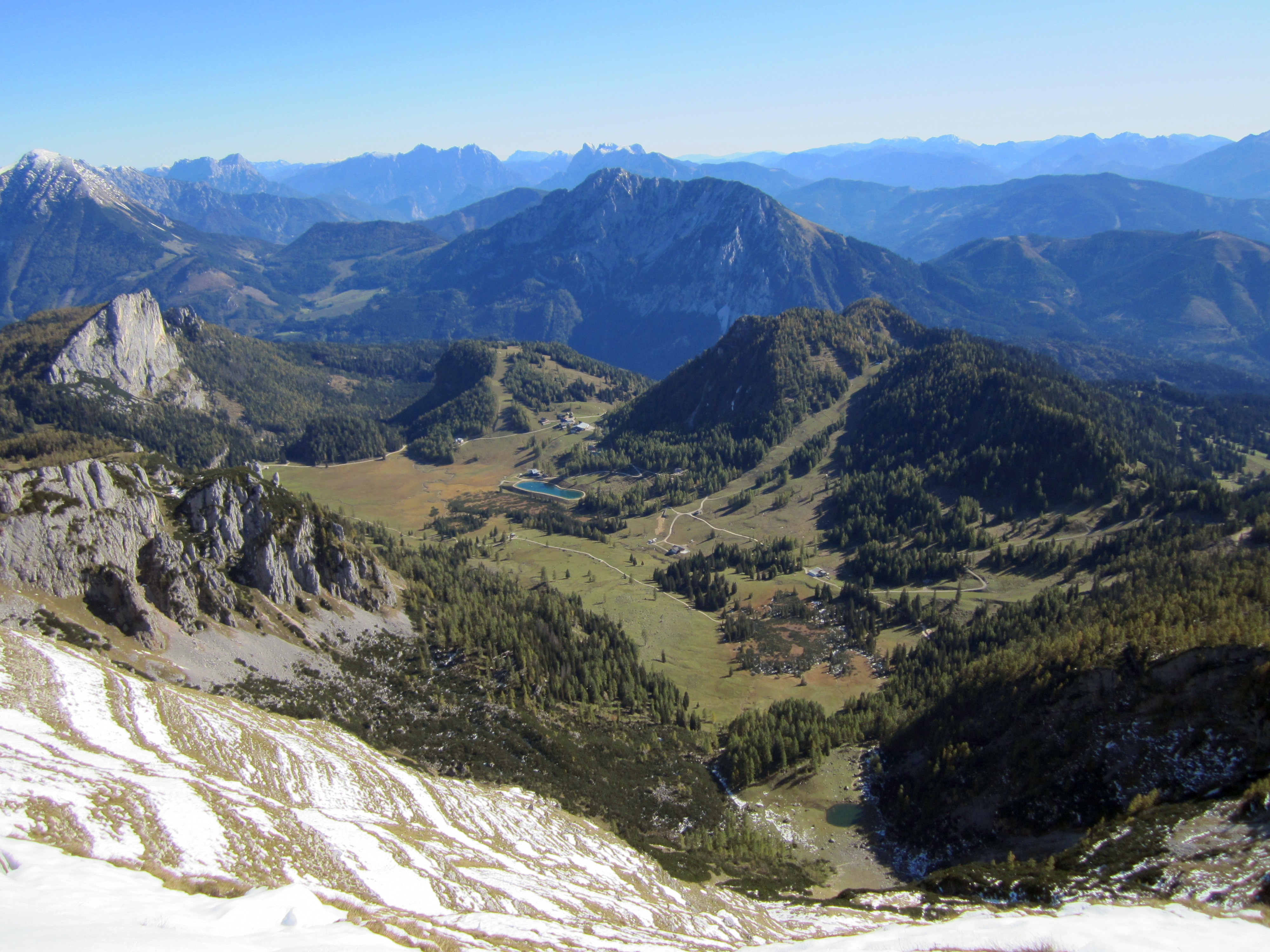 Wurzeralm, Upper Austria, As seen from Toter Mann